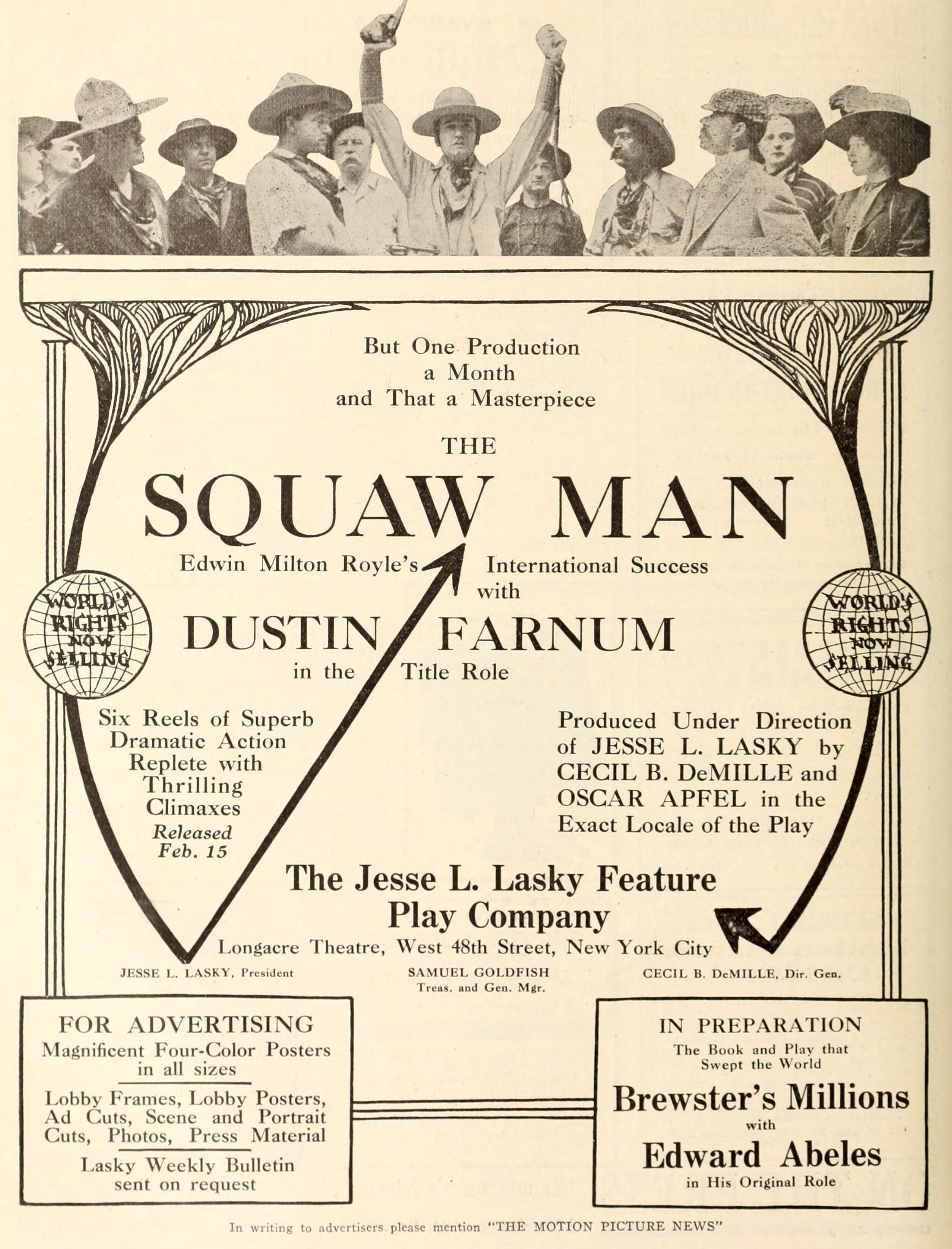 Advertisement for The Squaw Man (1914) in Motion Picture News.